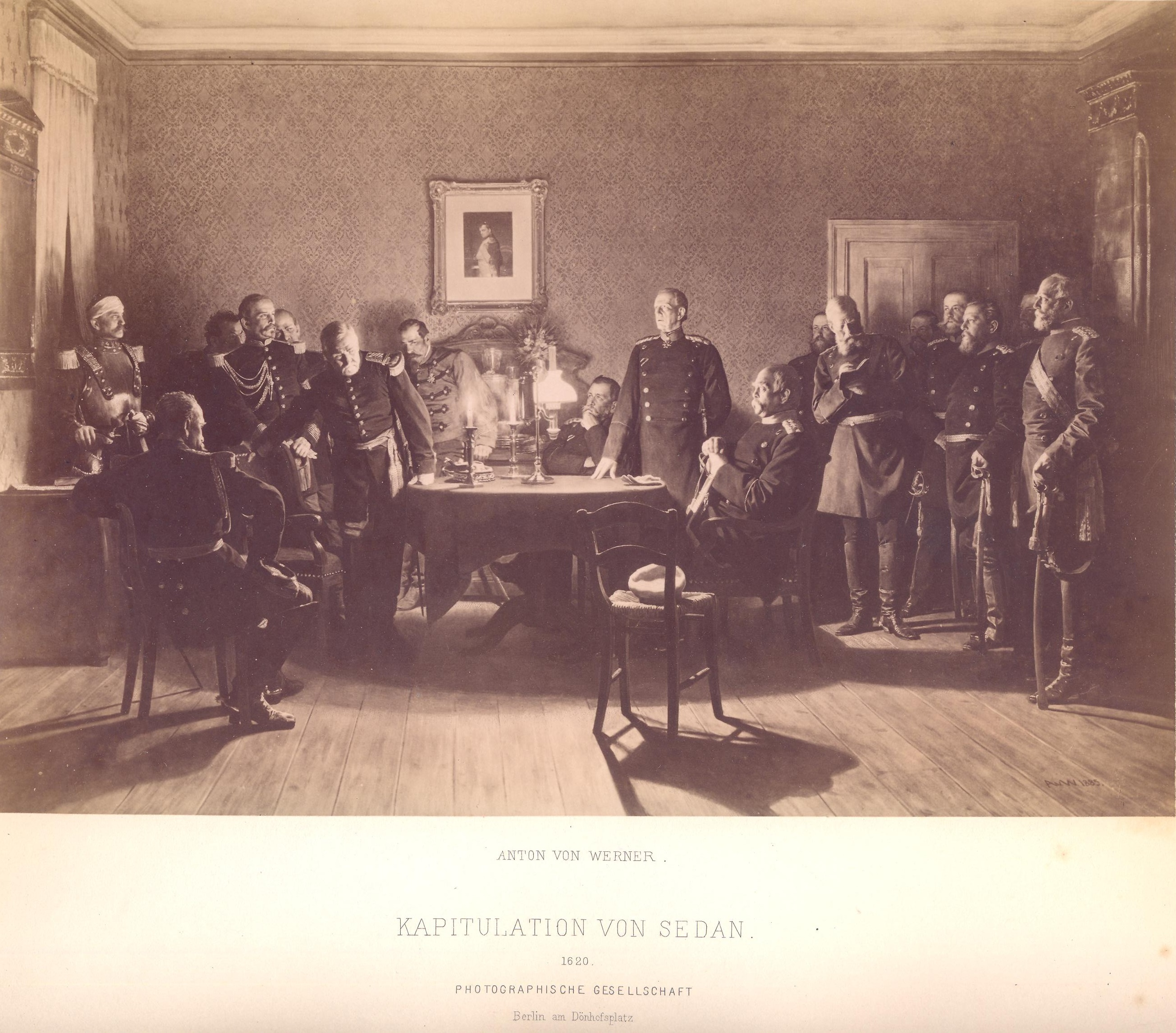 A depiction of the talks in the village of Donchery, Ardennes, France, on 2 September 1870, hours after the French Army of Châlons had run up a white flag over Sedan. Members of the French delegation pictured on the left: Supreme Commander Emmanuel Félix de Wimpffen (just standing up), General Auguste-Alexandre Ducrot, and other officers. Members of the delegation from the Prussian Coalition pictured on the right: Supreme Commander Helmuth von Moltke the Elder (standing at the table), Otto von Bismarck (sitting to Moltke's left), General Field Marshall Leonhard Graf von Blumenthal, General Field Marshall Alexander August Wilhelm von Pape, commanders of the 3rd- and the Maas-Army, and other officers.